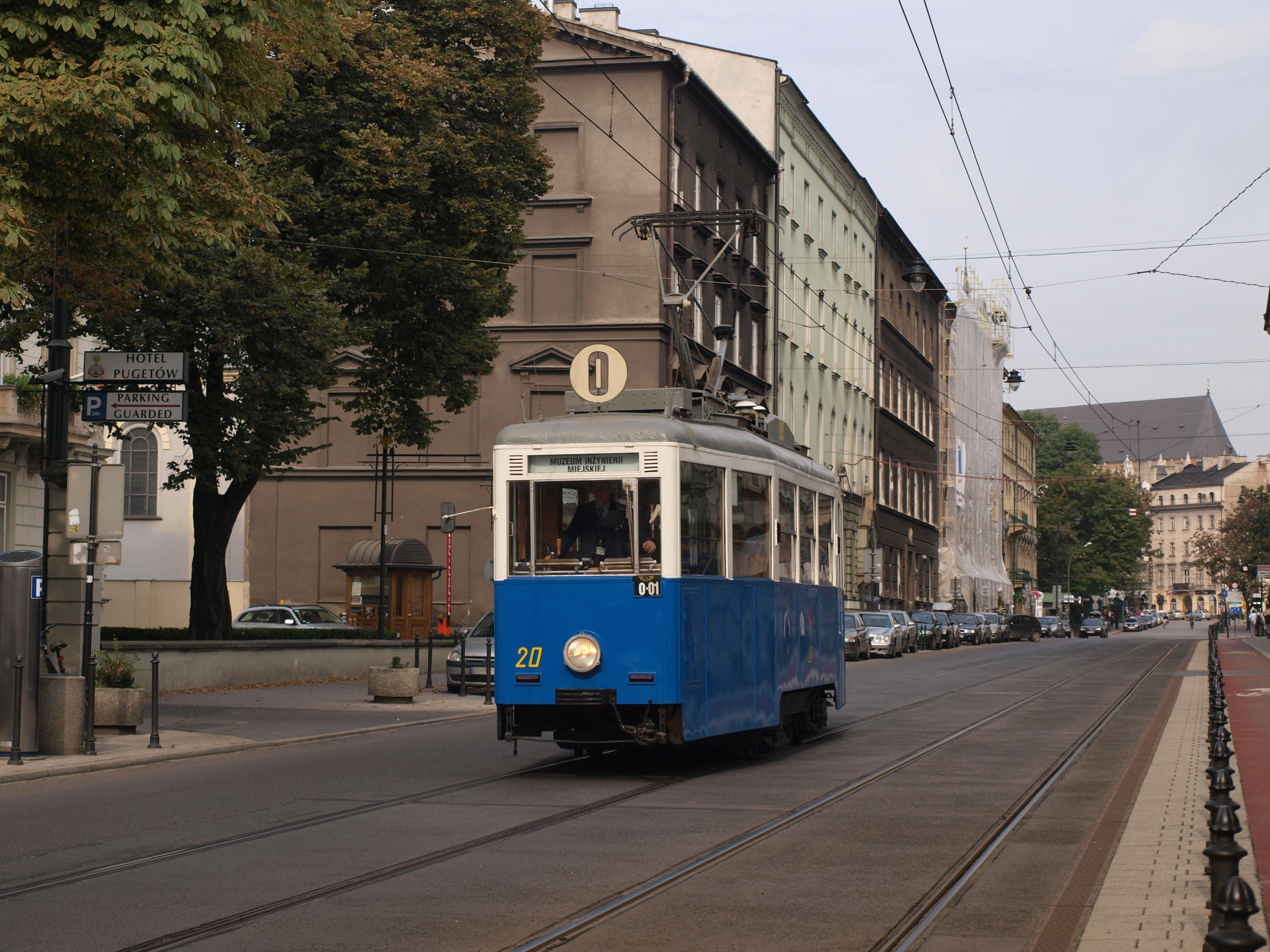 Historic Konstal N tram (#20, built 1954) on Starowiślna street in Kraków, Poland.